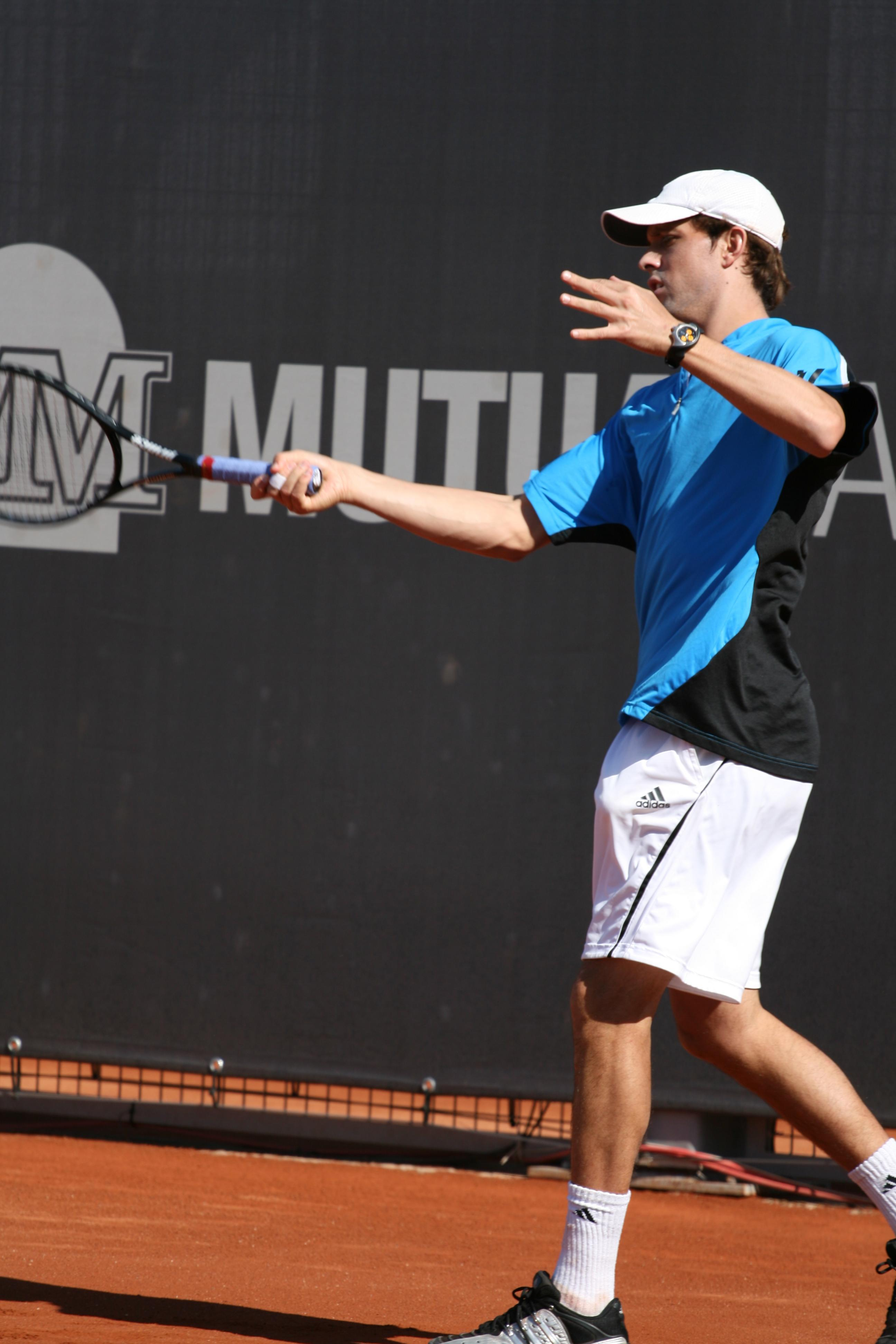 Mike Bryan and partner Bob Bryan (unseen) against Simon Aspelin and Wesley Moodie in the 2009 Mutua Madrileña Madrid Open second round